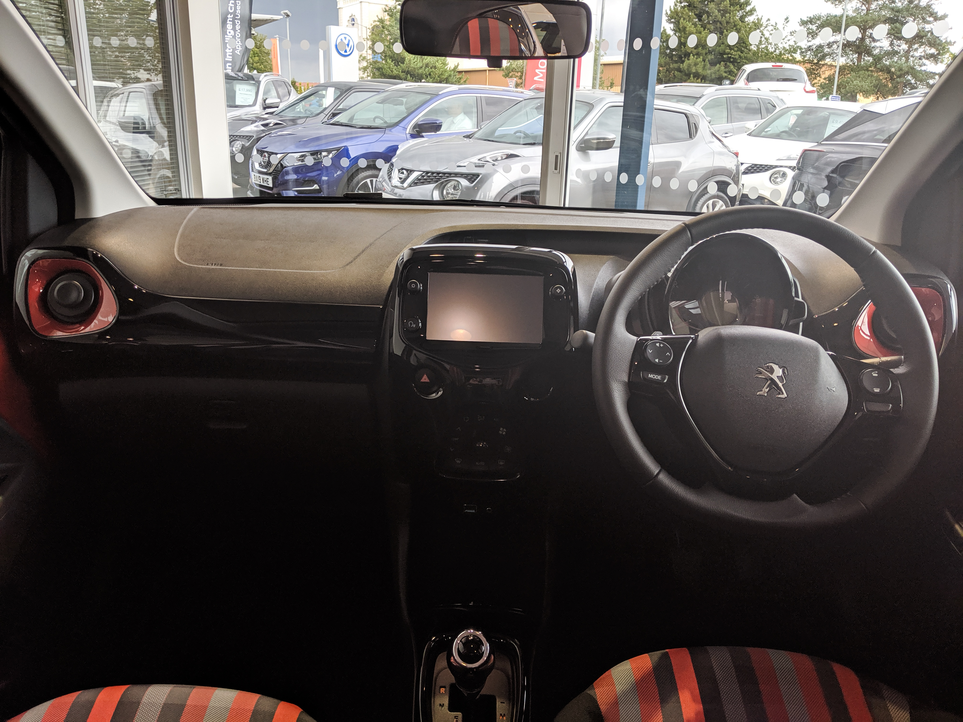 2019 Peugeot 108 Collection TOP! 1.0 Interior Taken in Leamington Spa